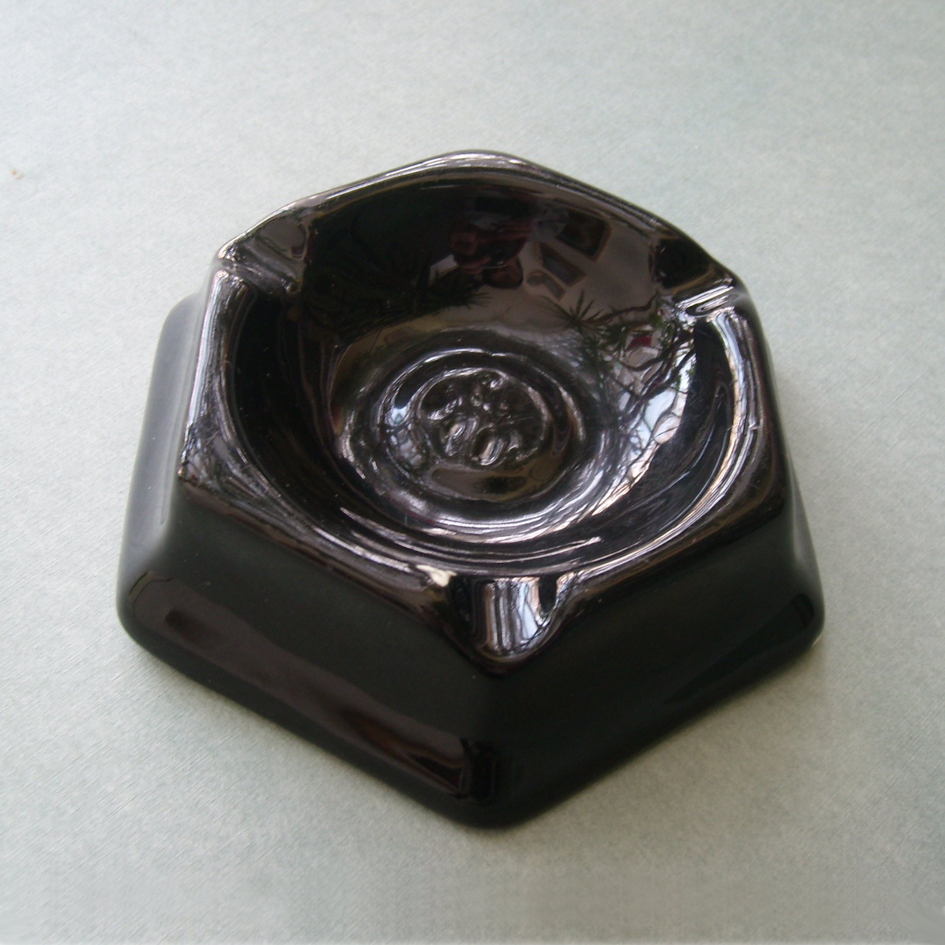 Ash tray with the stylized honeycomb logo of AEG. Designed during the time of Peter Behrens. Produced by "AEG Abtlg. Porzellan" (AEG, Dep. of China). Early 20th century. Item is part of my personal design collection